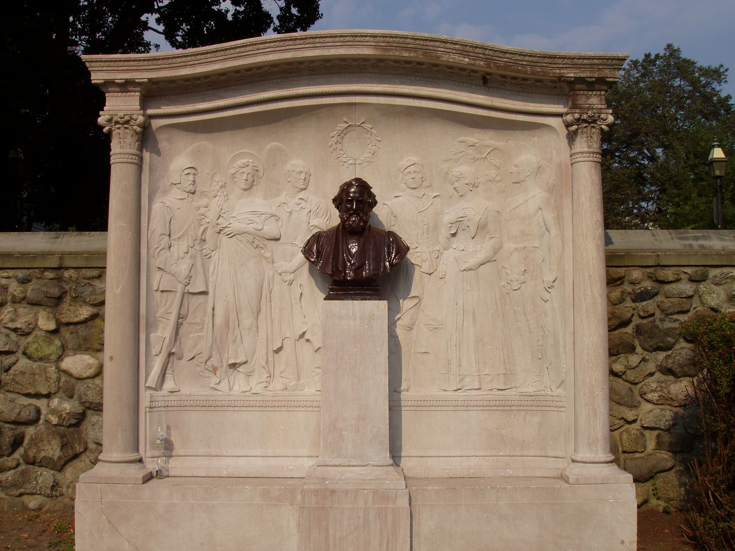 Henry Wadsworth Longfellow Memorial by sculptor Daniel Chester French (1850-1931), Cambridge, Massachusetts, USA. A bust of Longfellow is in the middle. To the left are bas relief sculptures of Miles Standish, the angel Sandalphon from his "Birds of Passage", and The Village Blacksmith. To the right are The Spanish Student, Evangeline (holding her Bible and Rosary), and Hiawatha. This sculpture is now in the public domain, as its author died more than 70 years ago.